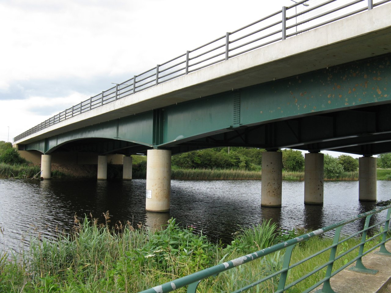 The Jubilee Bridge over the river Tees in the borough of Stockton-on-Tees near Ingleby Barwick.